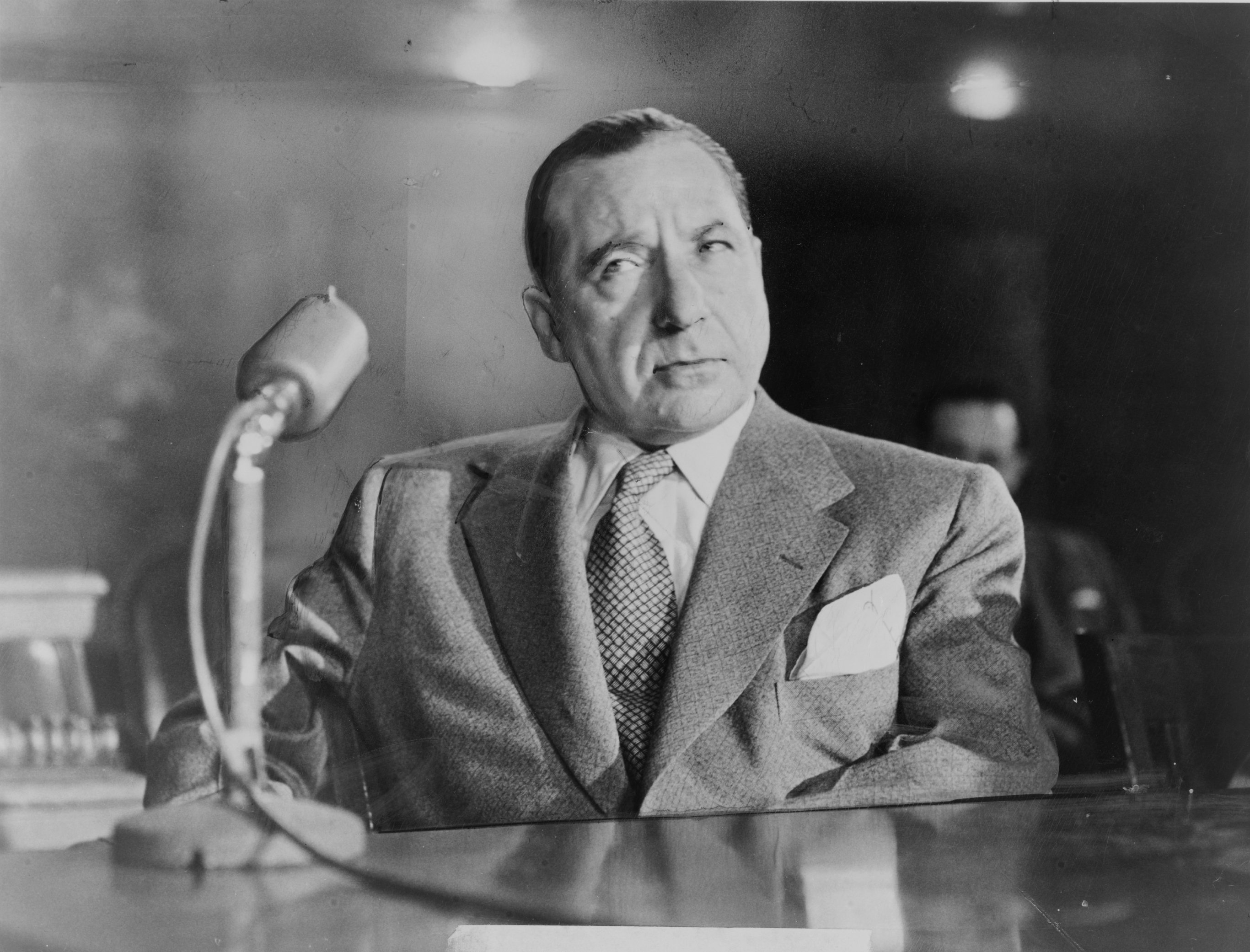 Frank Costello, American mobster, testifying before the Kefauver Committee investigating organized crime